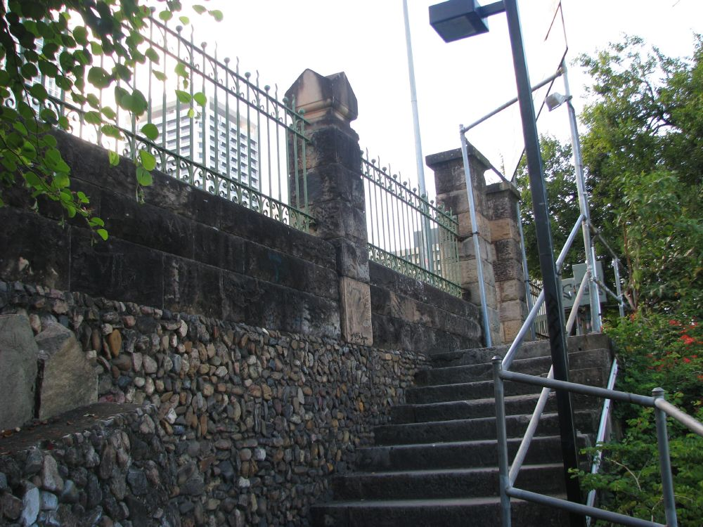 William Street and Queens Wharf Road retaining walls (2008) - stairs